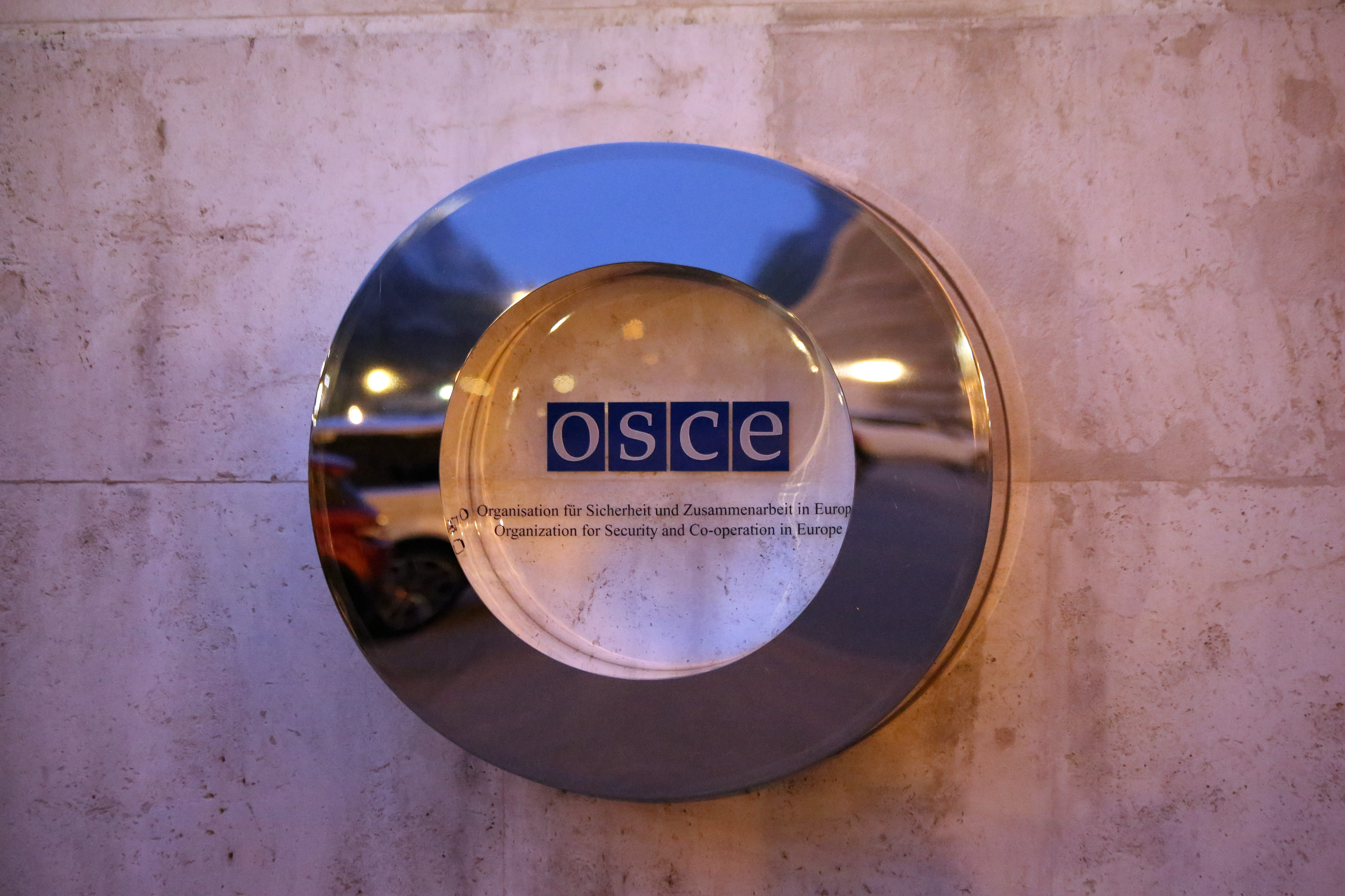 Office of Organization for Security and Co-operation in Europe (OSZE/OSCE) at Hofburg in Vienna, Austria.